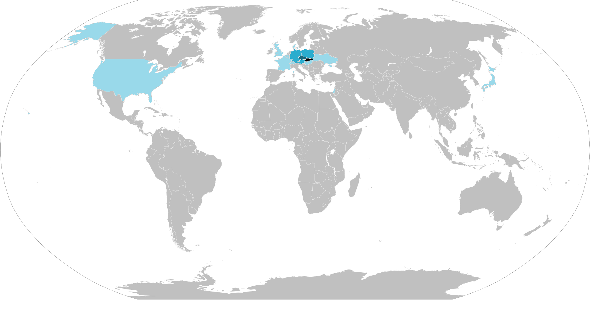 Map showing countries visited by Zuzana Čaputová as presiednt of the Slovak republic